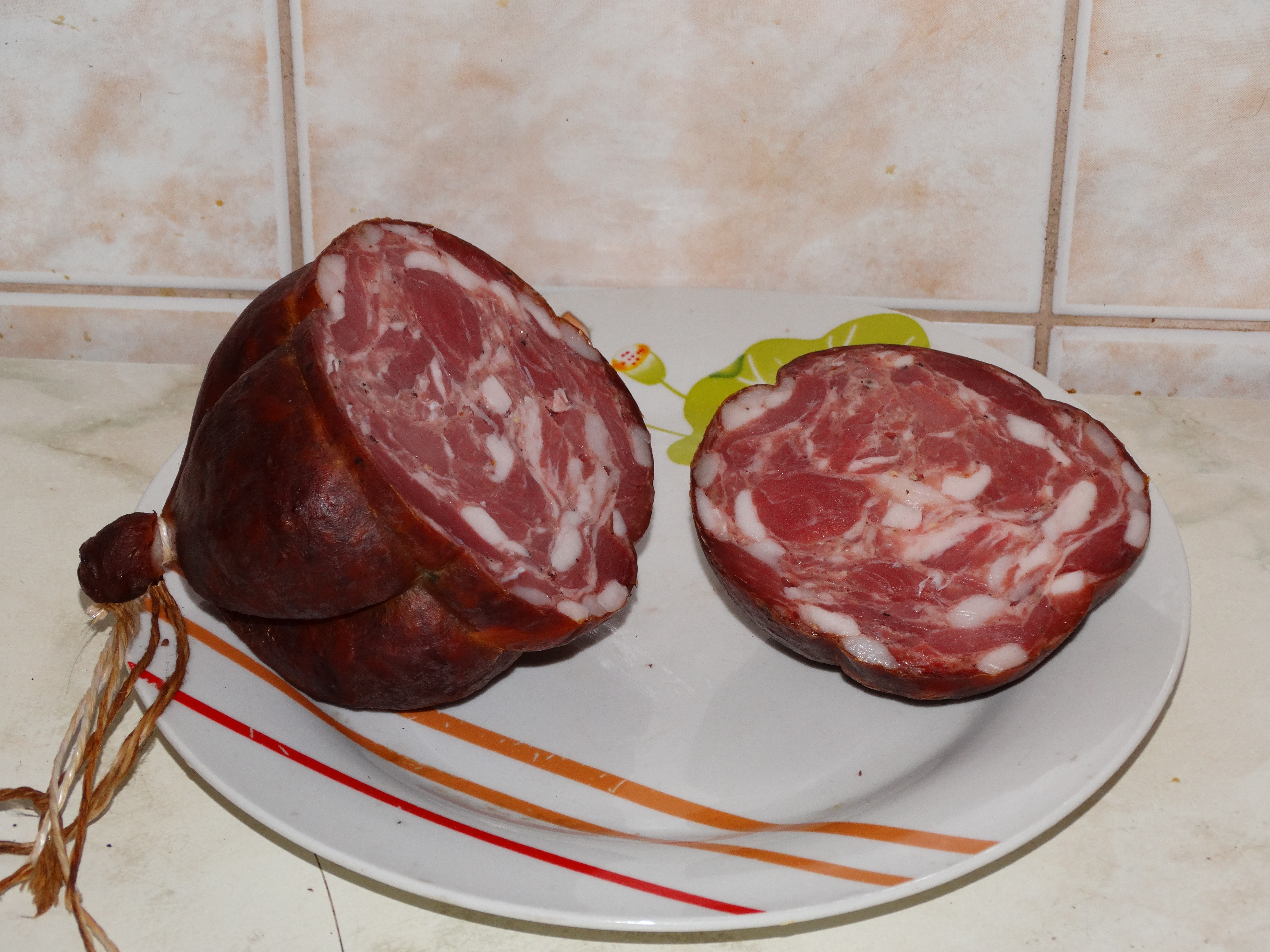 Skilandis (smoked pig's stomach or bladder stuffed with minced meat), Lithuania